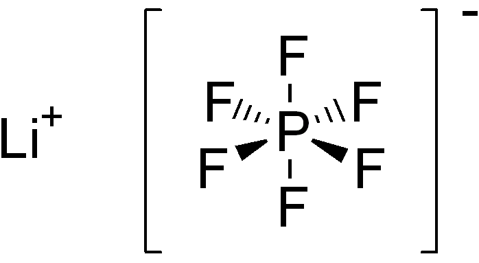 chemical structure of lithium hexafluorophosphate